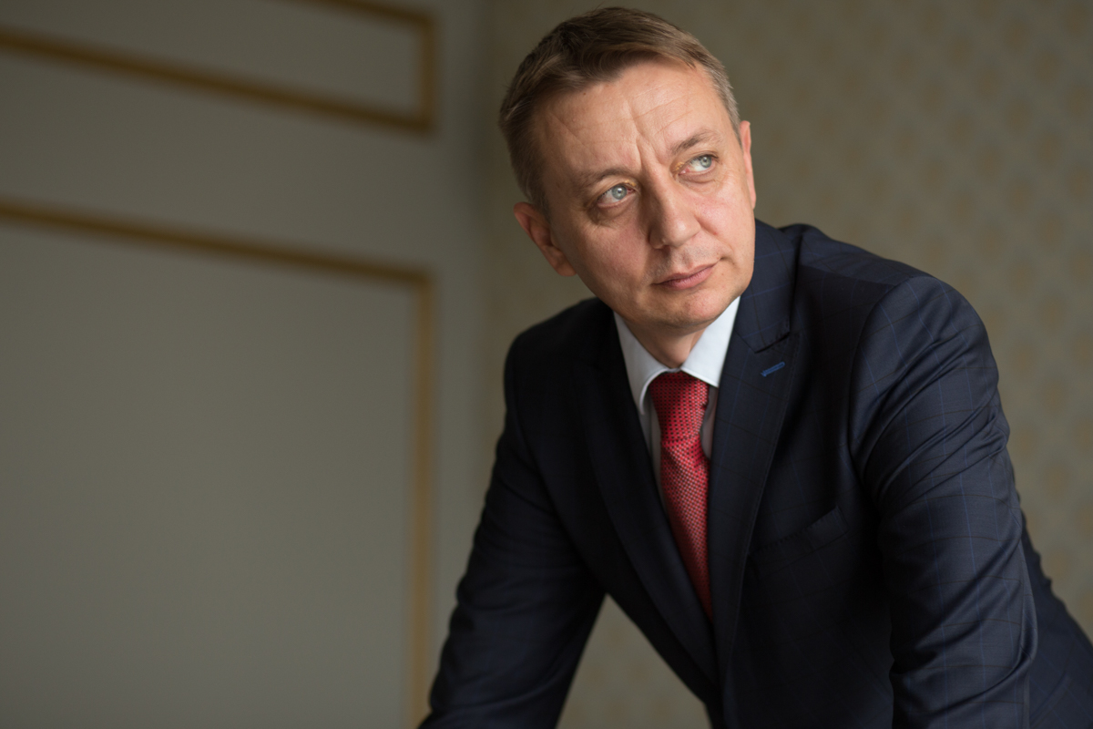 Rusmir Hrvic portrait